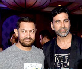 Aamir Khan, Akshay Kumar at the Launch of Twinkle Khanna's book 'Mrs Funnybones'